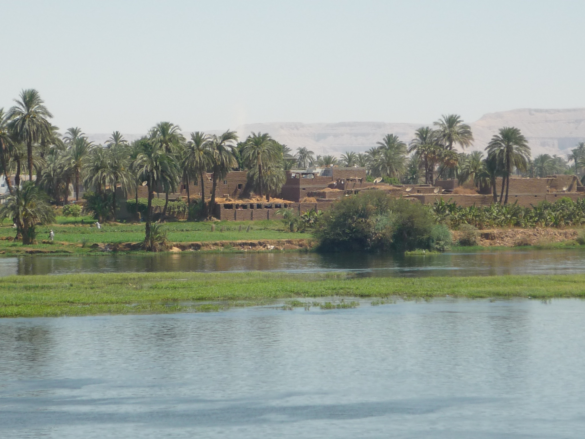 Traditionnal houses near Nile, Armant, Egypt